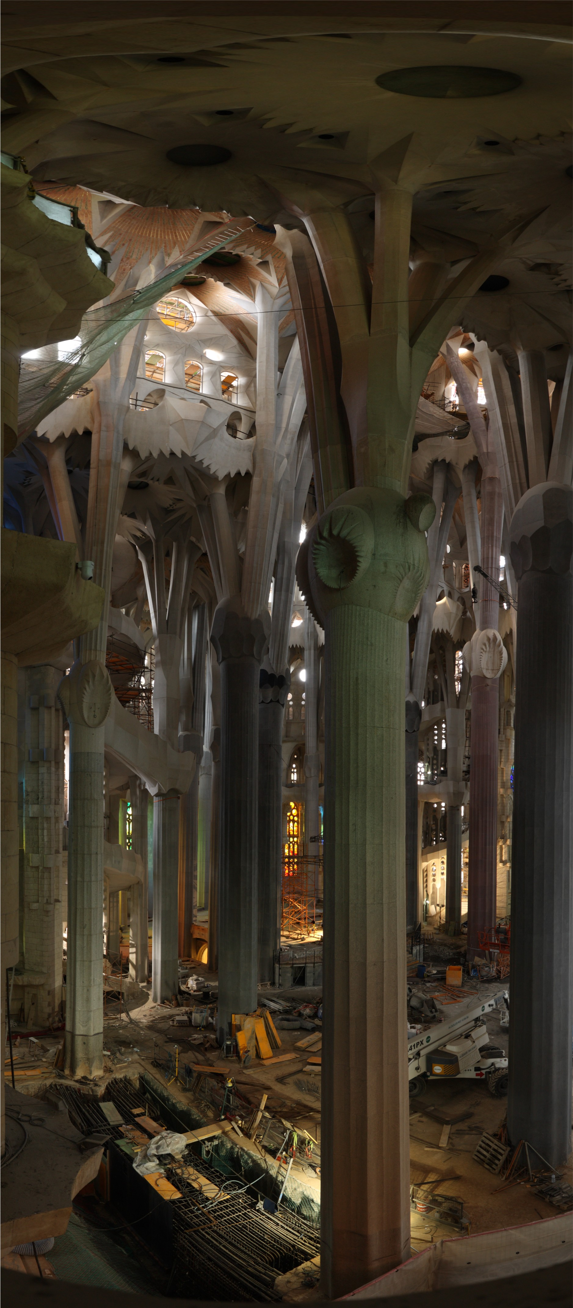 The interiors of Sagrada Família church in Barcelona, Spain. 5-5.6 IS; Aperture: 8.0; Exposure time: 3.2 s Stitched with Hugin using equirectangular projection.